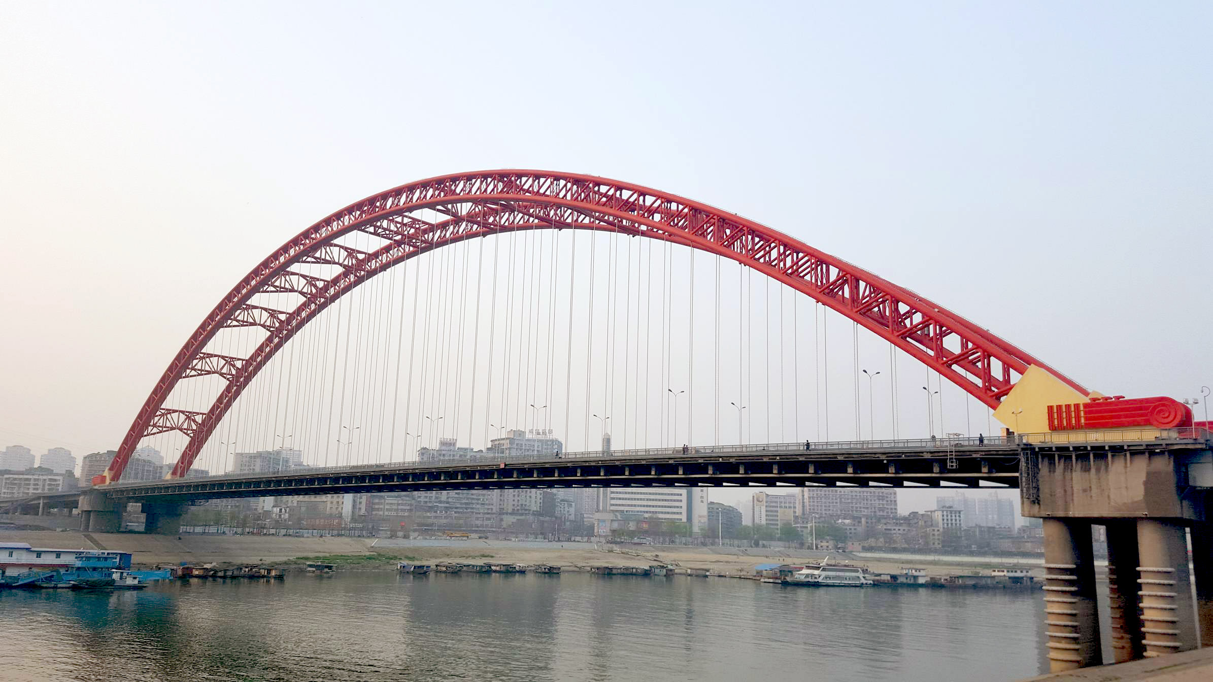 Qíngchuan Bridge, Wuhan